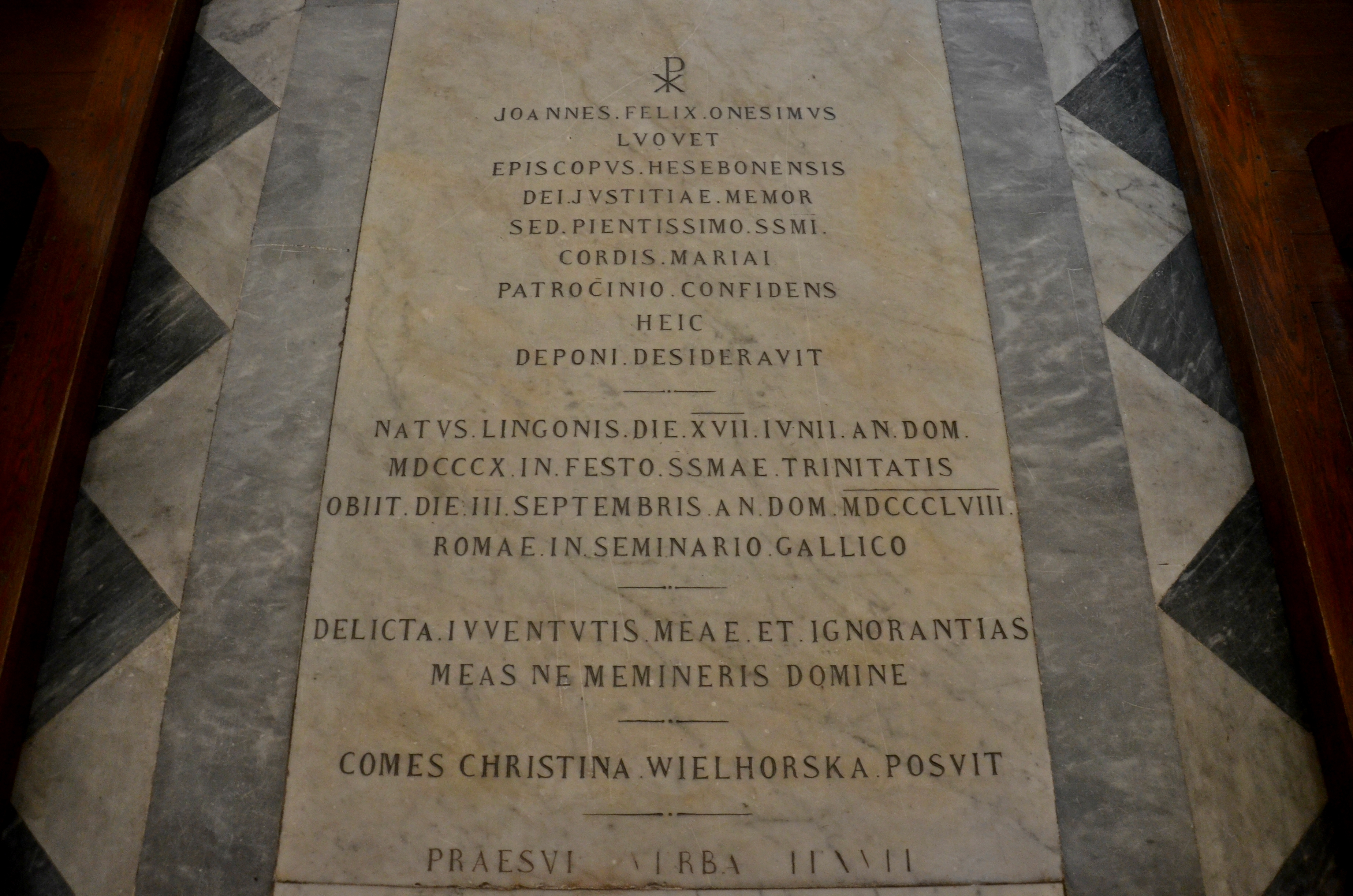 Tombstone of Bishop Jean-Félix-Onésime Luquet from the Paris Foreign Missions Society of Paris at the Pontifical French Seminary in Rome